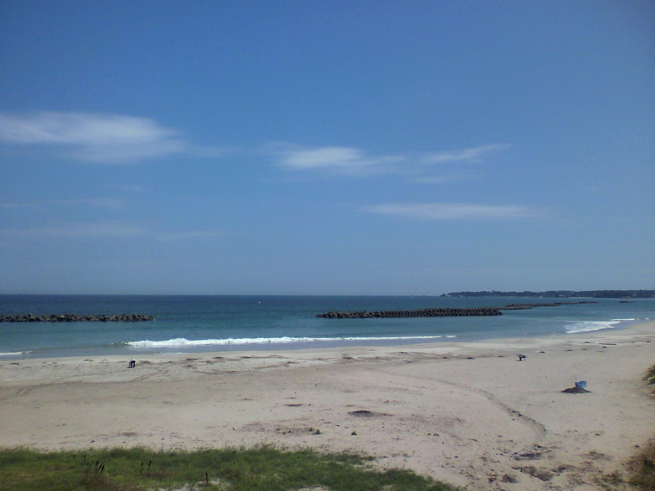 This is a beach in Shima, Mie, Japan. This beach is named "Ko white beach".It is a famous surfing spot in Tokai and Kansai area in Japan.